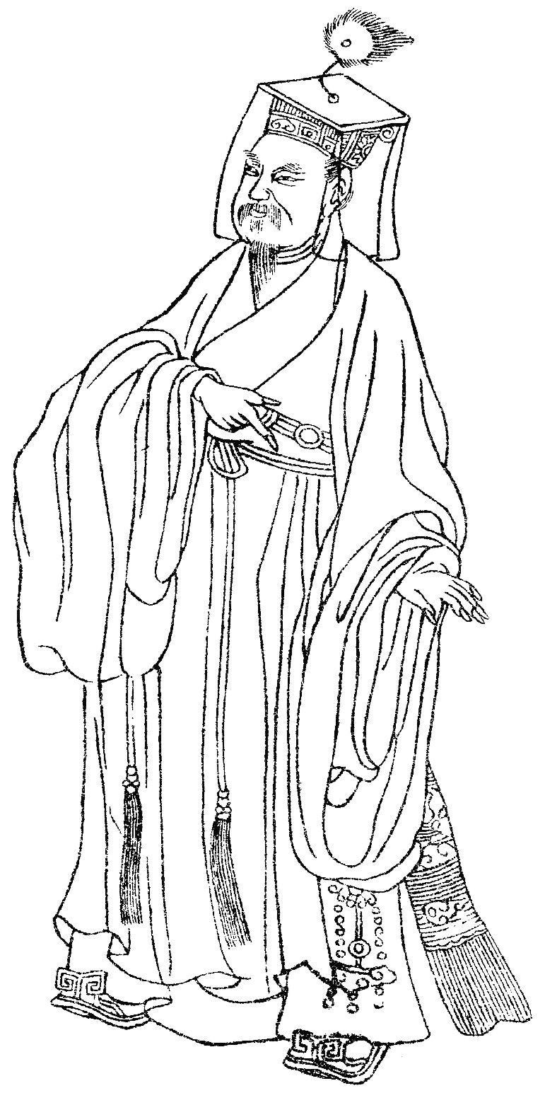 Han Yu（韓愈）was a politician and literary man in China.